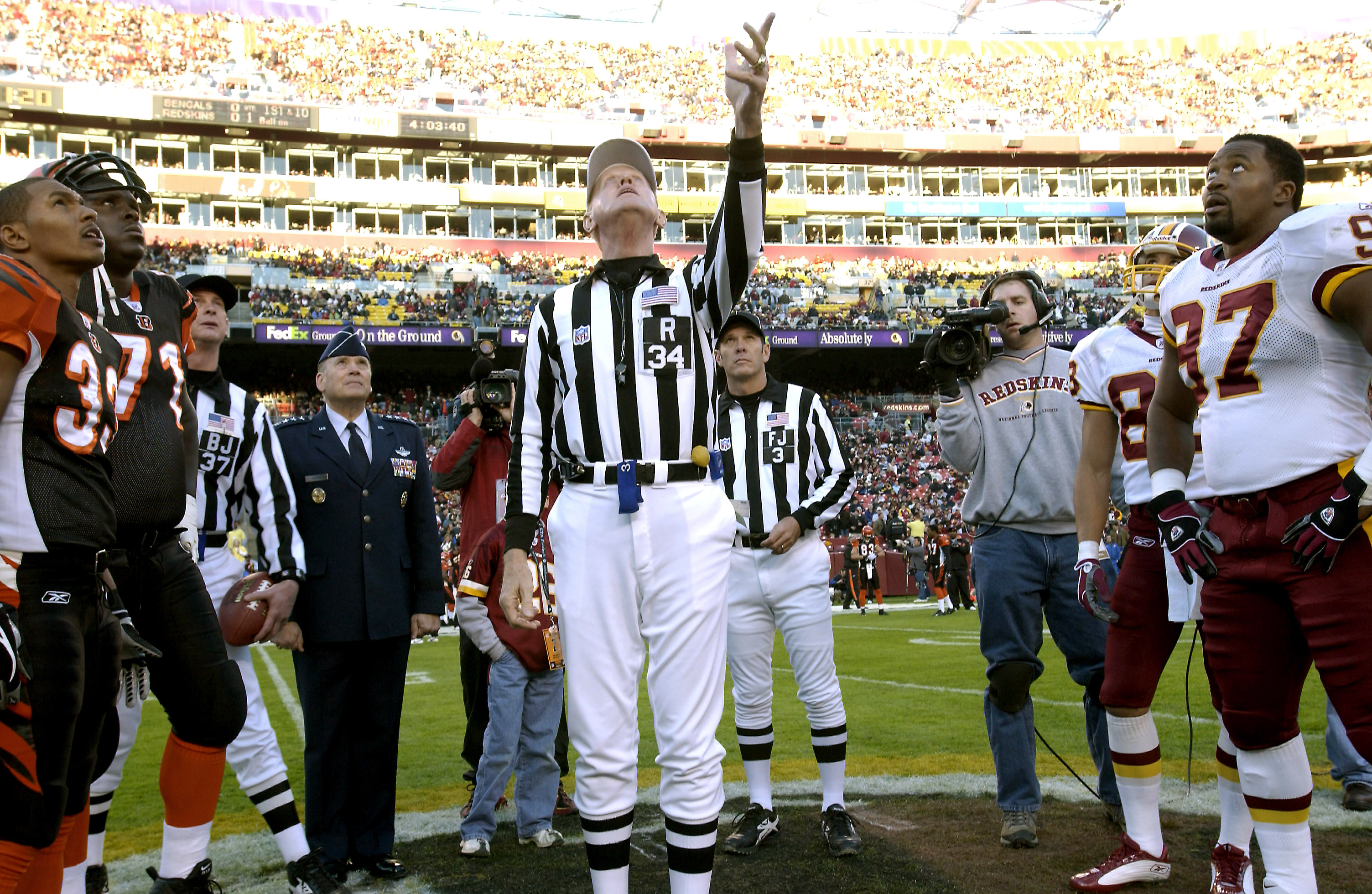 LANDOVER, Md. -- Air Force Chief of Staff Gen. John P. Jumper (center left) was on hand for the opening coin toss at the Washington Redskins vs. Cincinnati Bengals football game here Nov. 14. It was part of a Veterans Day salute to the Air Force. (U.S. Air Force photo by Master Sgt. Jim Varhegyi)